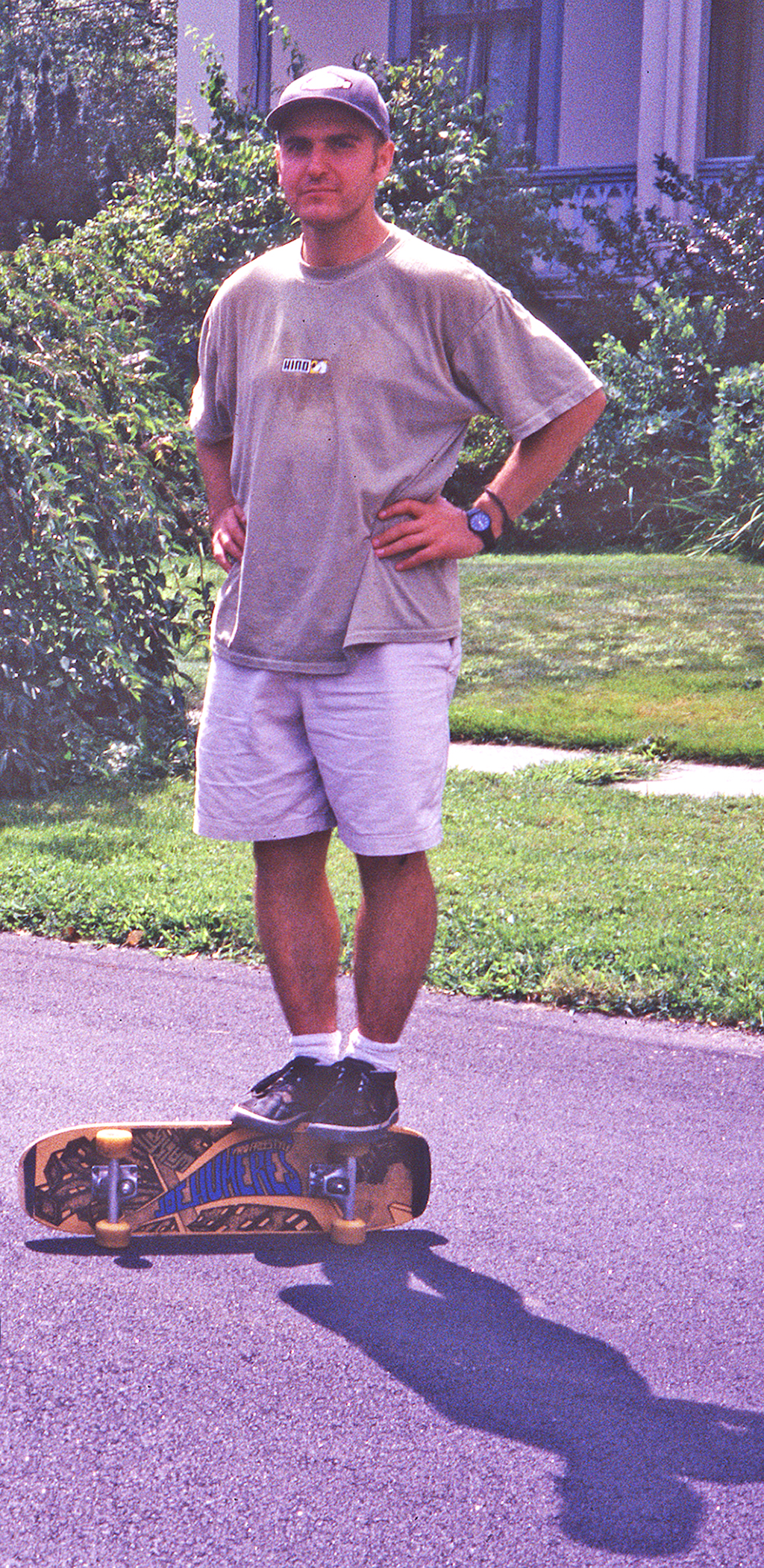 Joe Humeres, world champion freestyle skateboarder in his hometown of Nyack New York U.S.A.